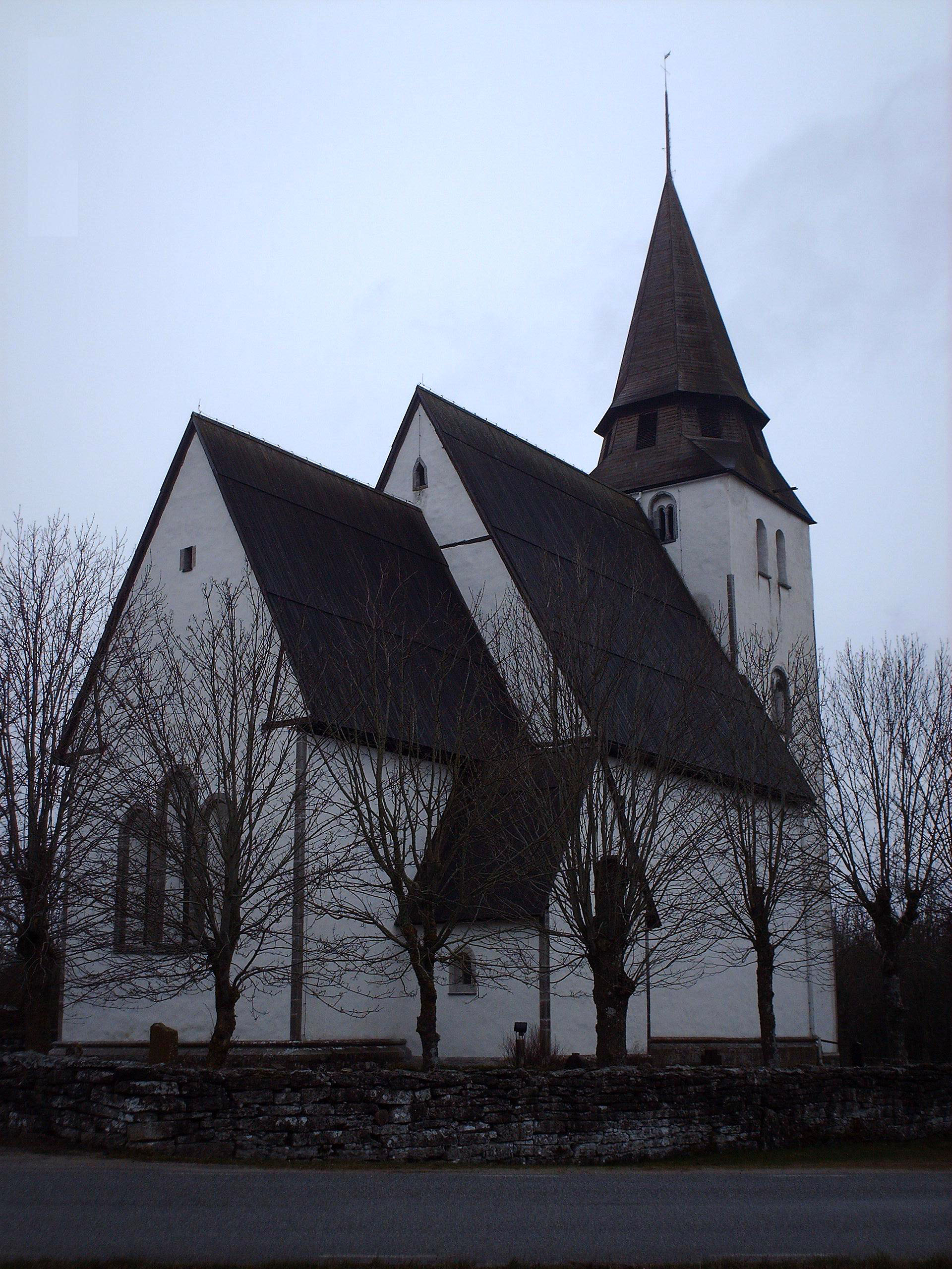 Norrlanda Church, Gotland, Sweden